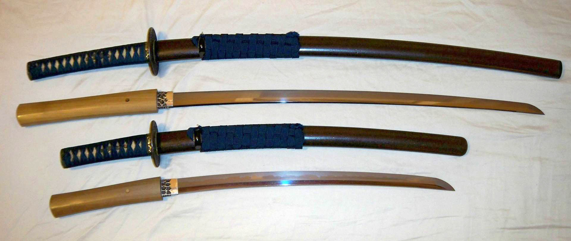 Antique Japanese (samurai) daisho consisting of matching koshirae, shirasaya, katana and wakizashi made by separate sword smiths.